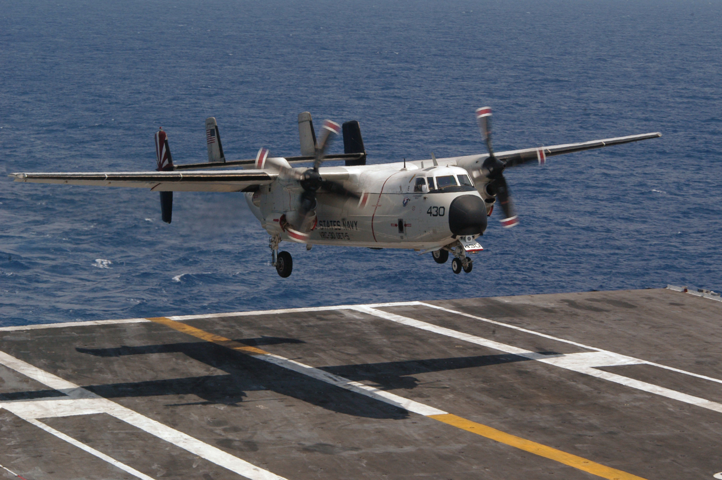 A Grumman C-2A Greyhound, or Carrier On-Board Delivery (COD), attached to Fleet Logistic Squadron (VRC) 30 Det. 5 Passwords, lands on the flight deck of USS Kitty Hawk (CV-63) during Carrier Qualifications (CQ) in the western Pacific Ocean.